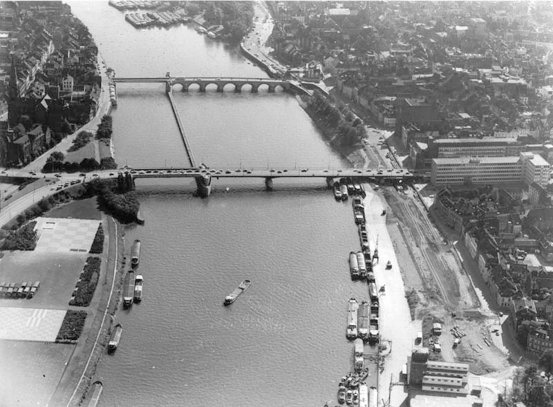 Aerial photograph of 1965 of the river Meuse and the construction of Maasboulevard in Maastricht, Netherlands.